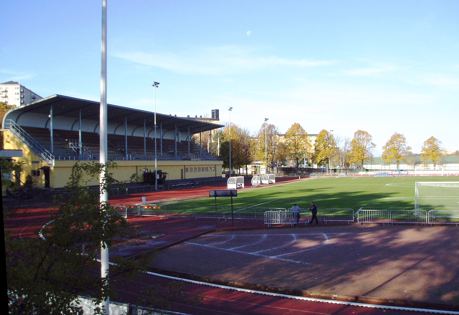 Kristinebergs playing field, Kungsholmen, Stockholm